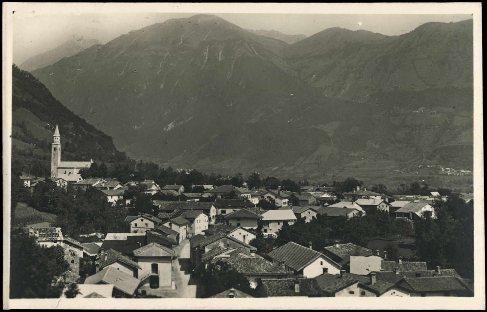 Postcard of Tolmin.